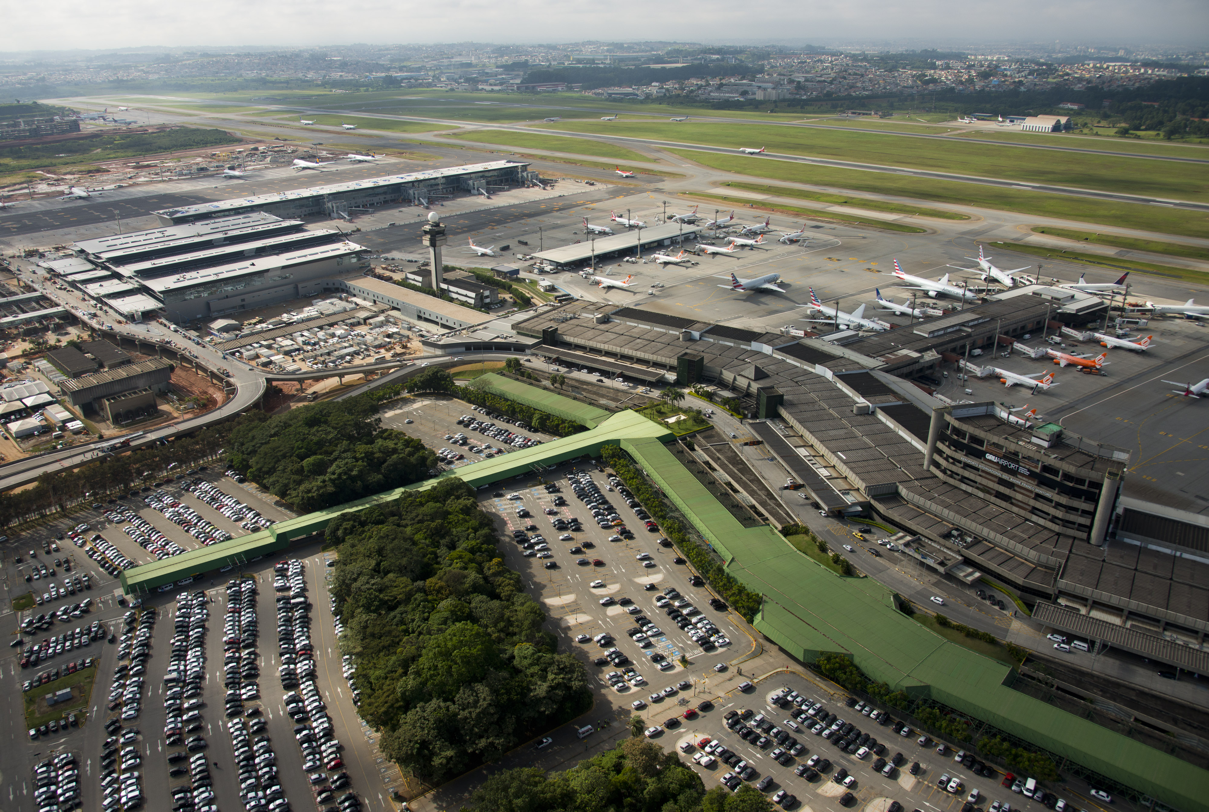 Aeroporto Internacional de Cumbica, Guarulhos, São Paulo, Brasil